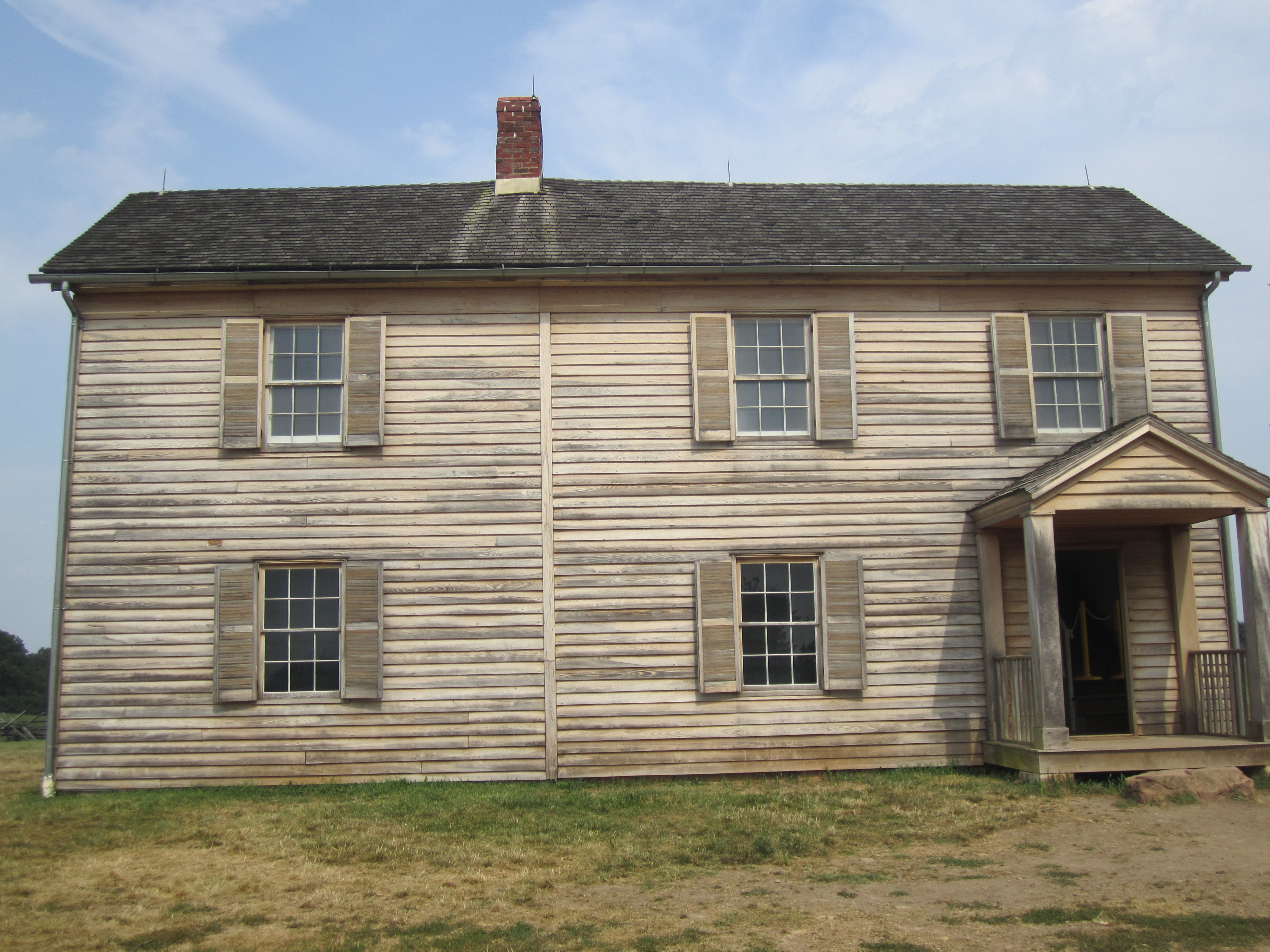 I took photo of Judith Henry farmhouse at Manassas, VA, National Battlefield Park, with Canon camera.